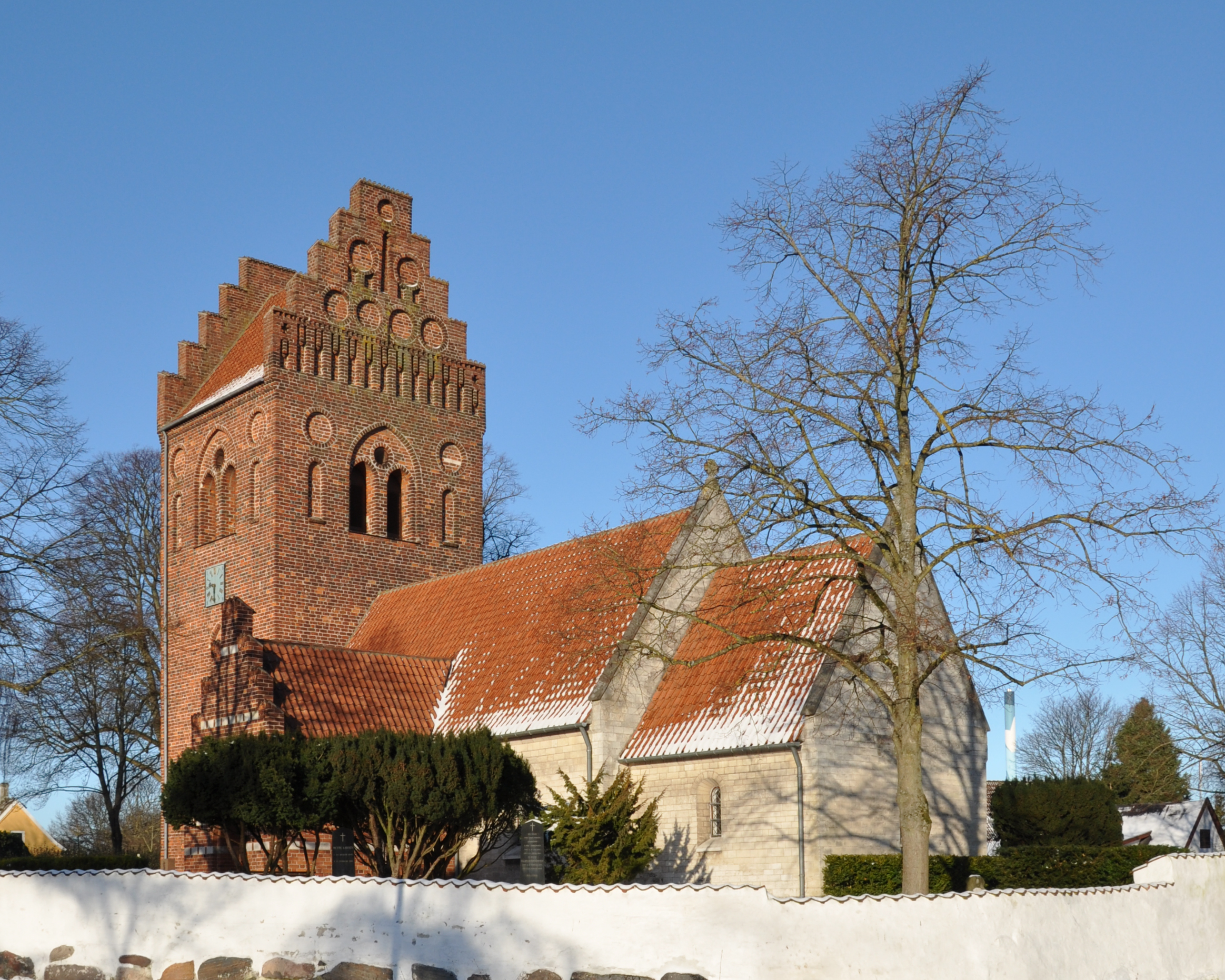 Brøndbyvester Church, Brøndby Municipality, Denmark.